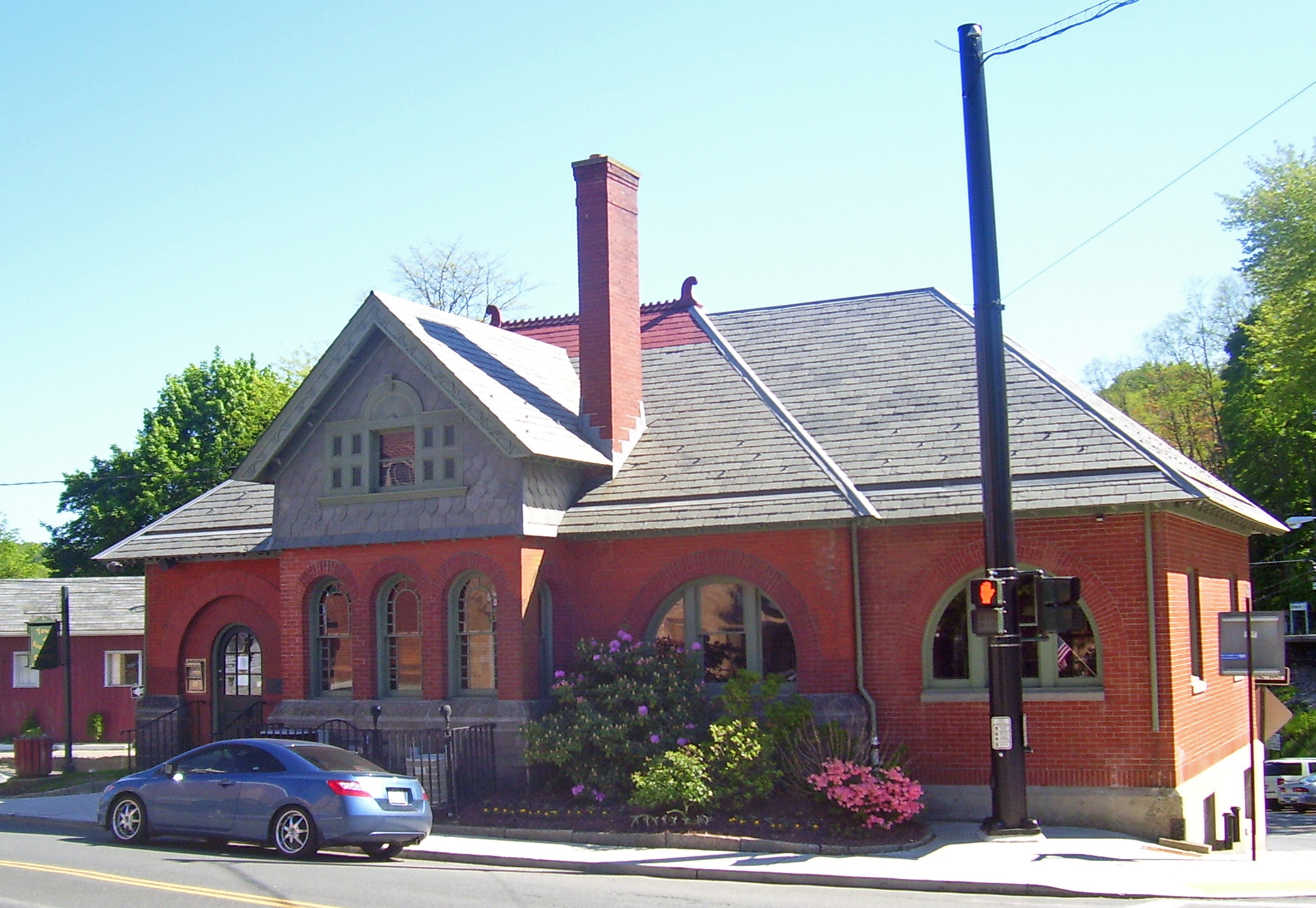 Former First National Bank of Brewster, NY, USA building, now Southeast town hall